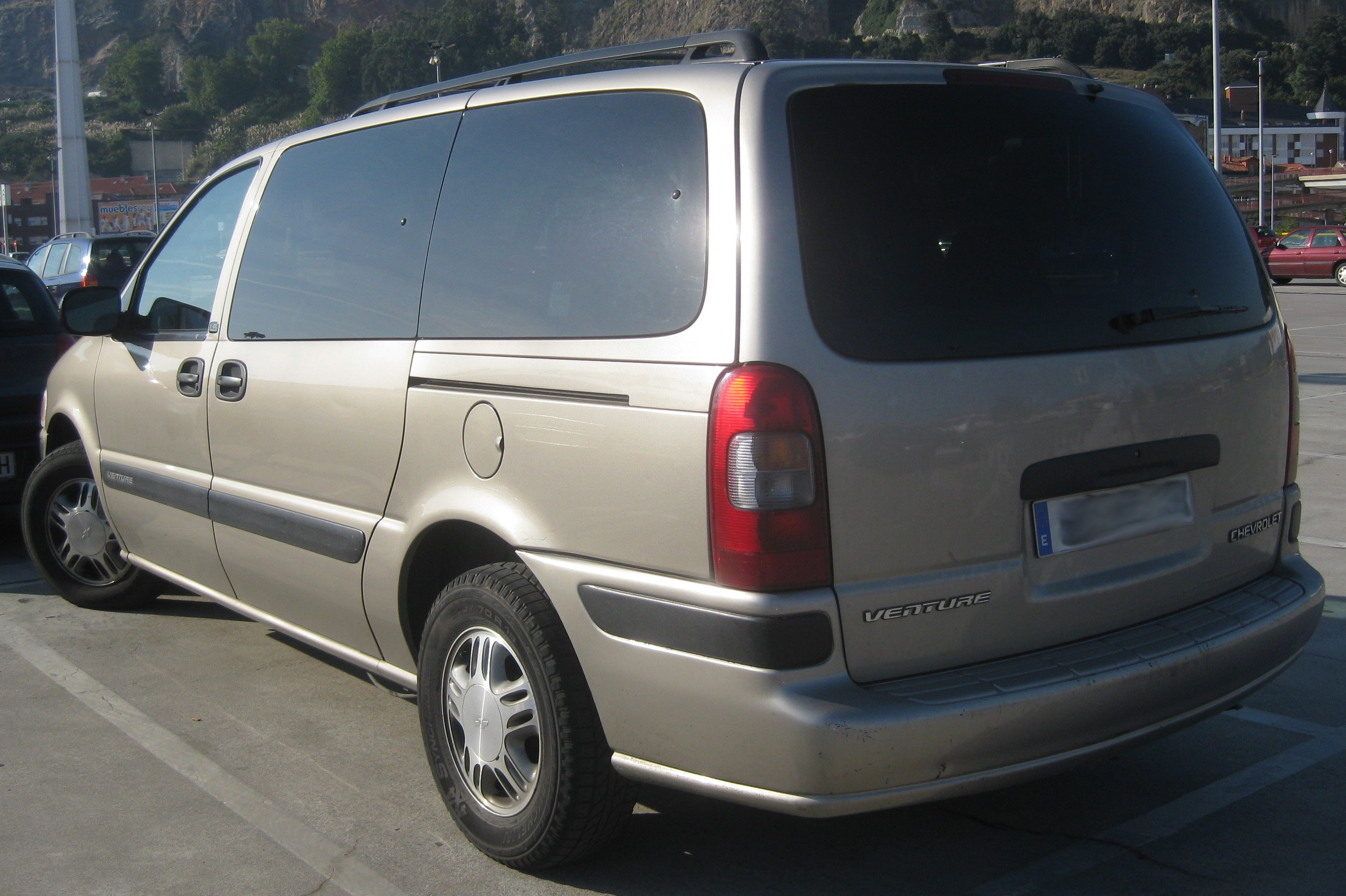 Obviously when I saw this in the far I thought it was the typical Trans Sport sold in Europe BUT! it wasn't, it was a "real" American Chevrolet Venture! with its US specifications :) I saw at a shopping centre's car park in Santander (Cantabria).